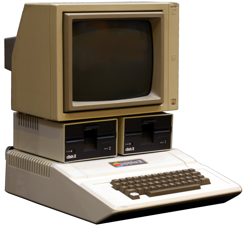 This is a modified version of an image uploaded to Wikimedia Commons. This image contains a picture of the Apple II computer. I modified the picture by cropping and making the background transparent. The resolution was also downgraded to maintain a small file. The goal was to make a better picture for the article. Apple II computer. On display at the Musée Bolo, EPFL, Lausanne.